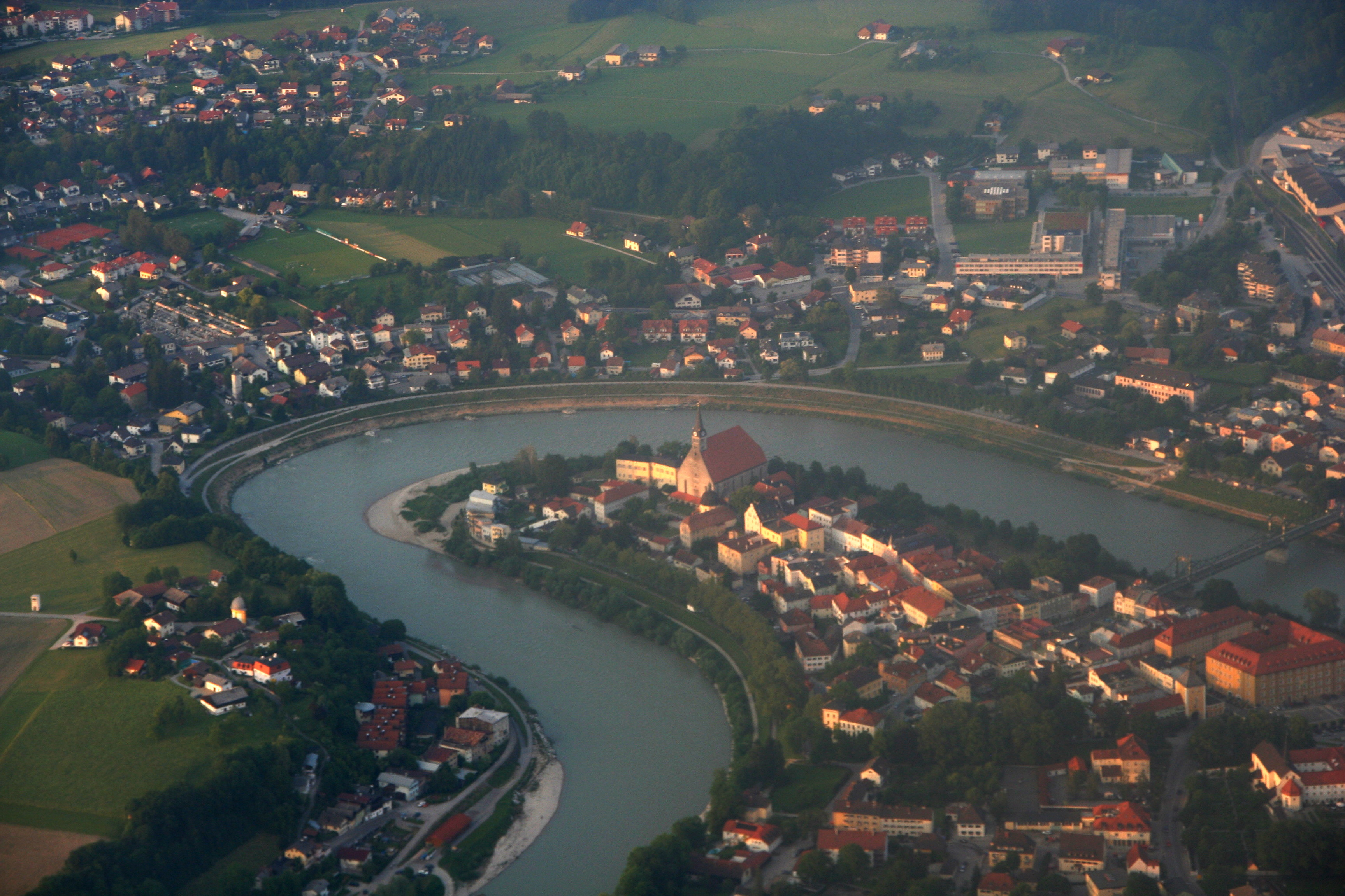 The image shows the river Salzach, which forms the border between the German town of Laufen, Bavaria (below and right) and the Austrian town of Oberndorf bei Salzburg (above and left). The camera is pointing roughly northeast. The location of the Europa bridge (built 2007) is within the frame.